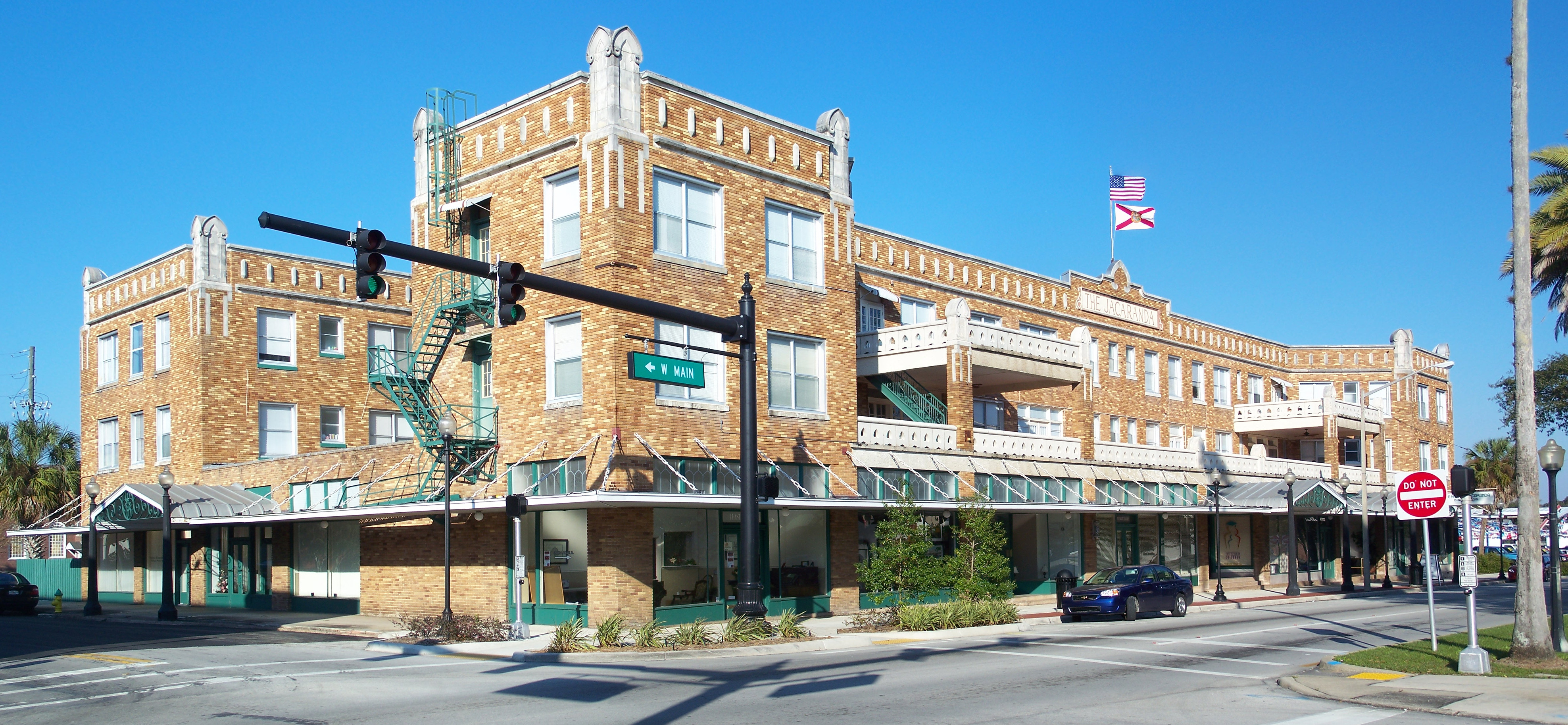 Avon Park, Florida: Avon Park Historic District: Old Jacaranda Hotel, now owned by South Florida Community College. It is listed in A Guide to Florida's Historic Architecture.